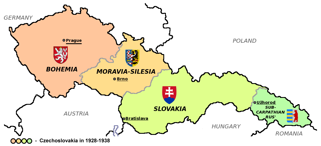 Maps of Czechoslovakia in 1928-1938 with marked borders of all four Czechoslovak countries and their coats of arms and regional capital cities Based on Image:Czechoslovakia_COA_medium.svg. *